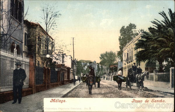 Paseo de Sancha, Málaga, Spain.